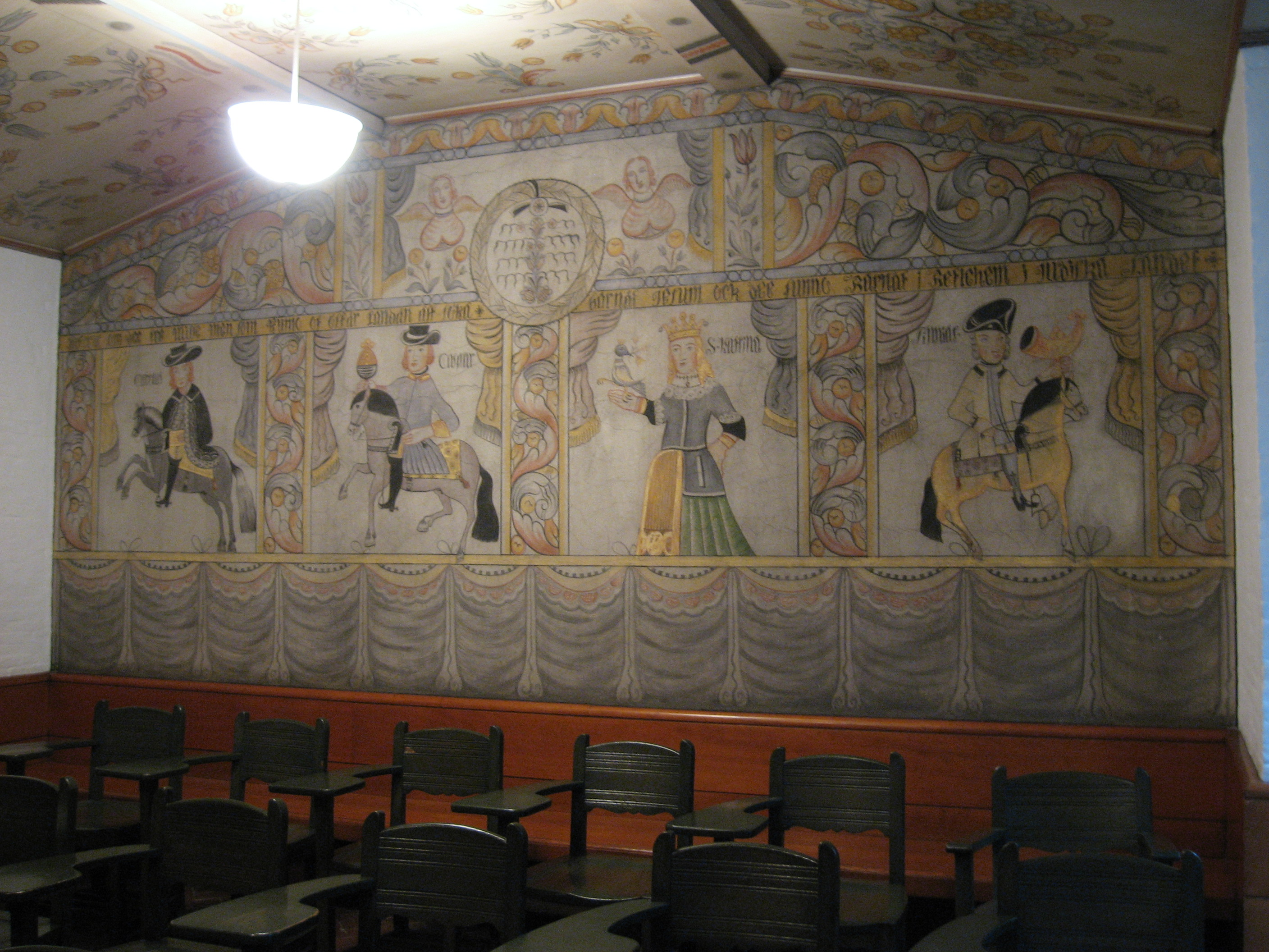 Swedish Nationality Room of the Nationality Rooms at the University of Pittsburgh's Cathedral of Learning